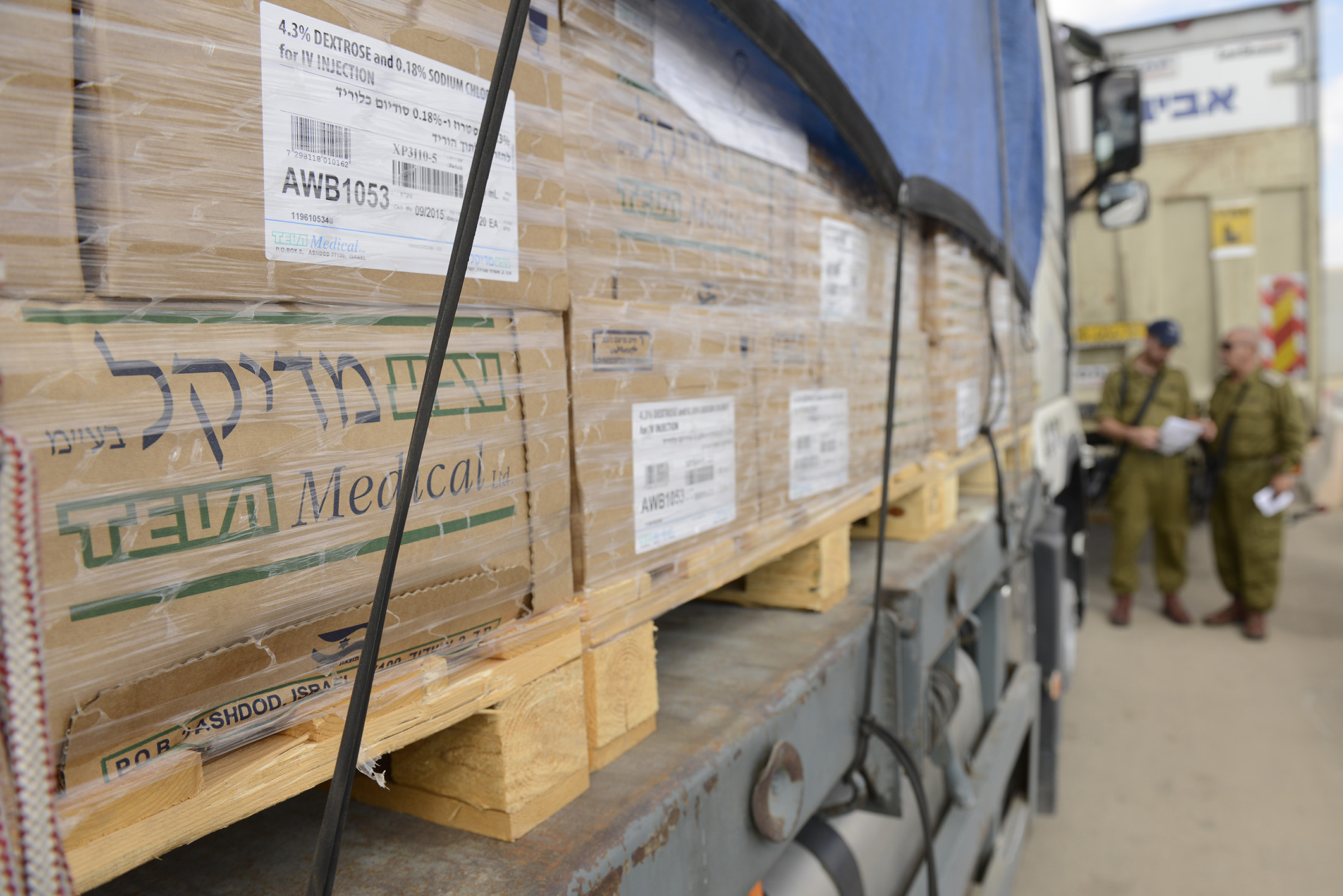 IDF facilitated the transfer of approximately 100 tons of medical supplies and goods into Gaza through Kerem Shalom Crossing. July 19, 2014